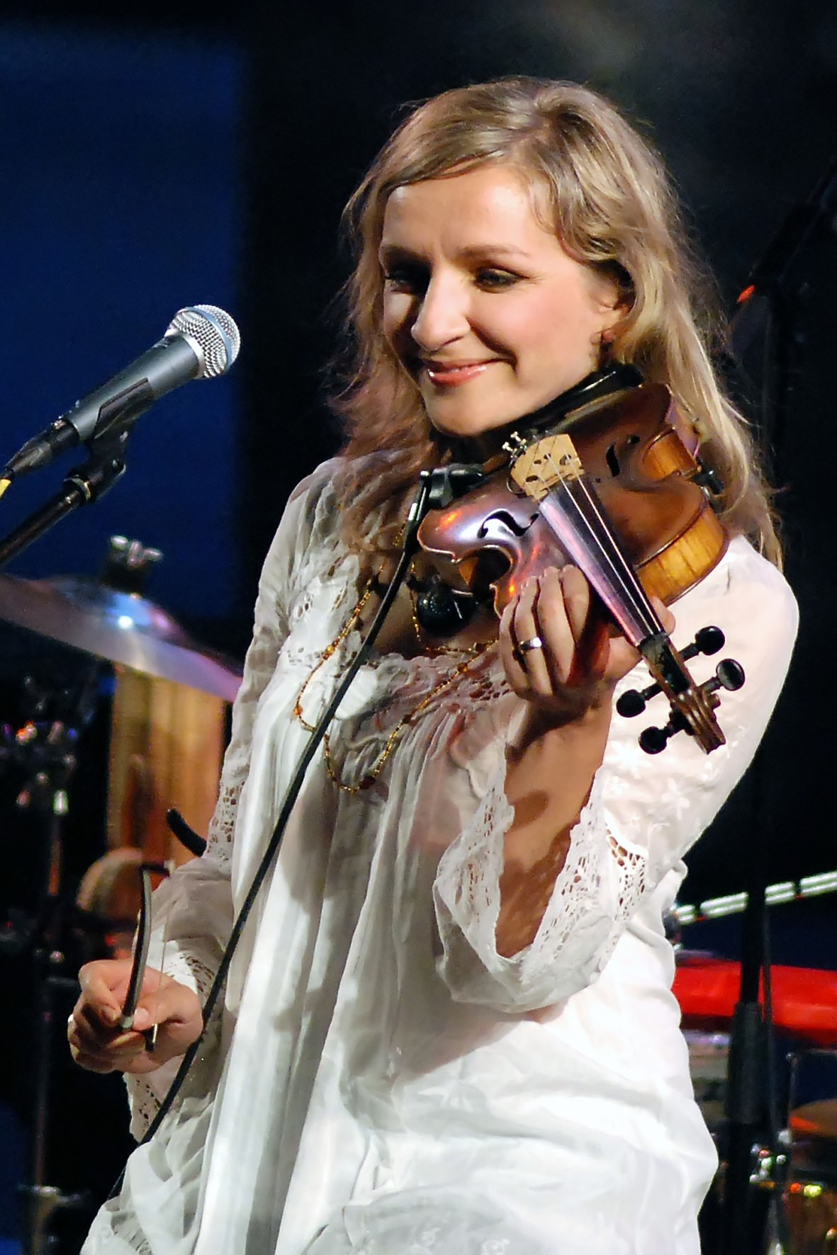 Anne de Wolff